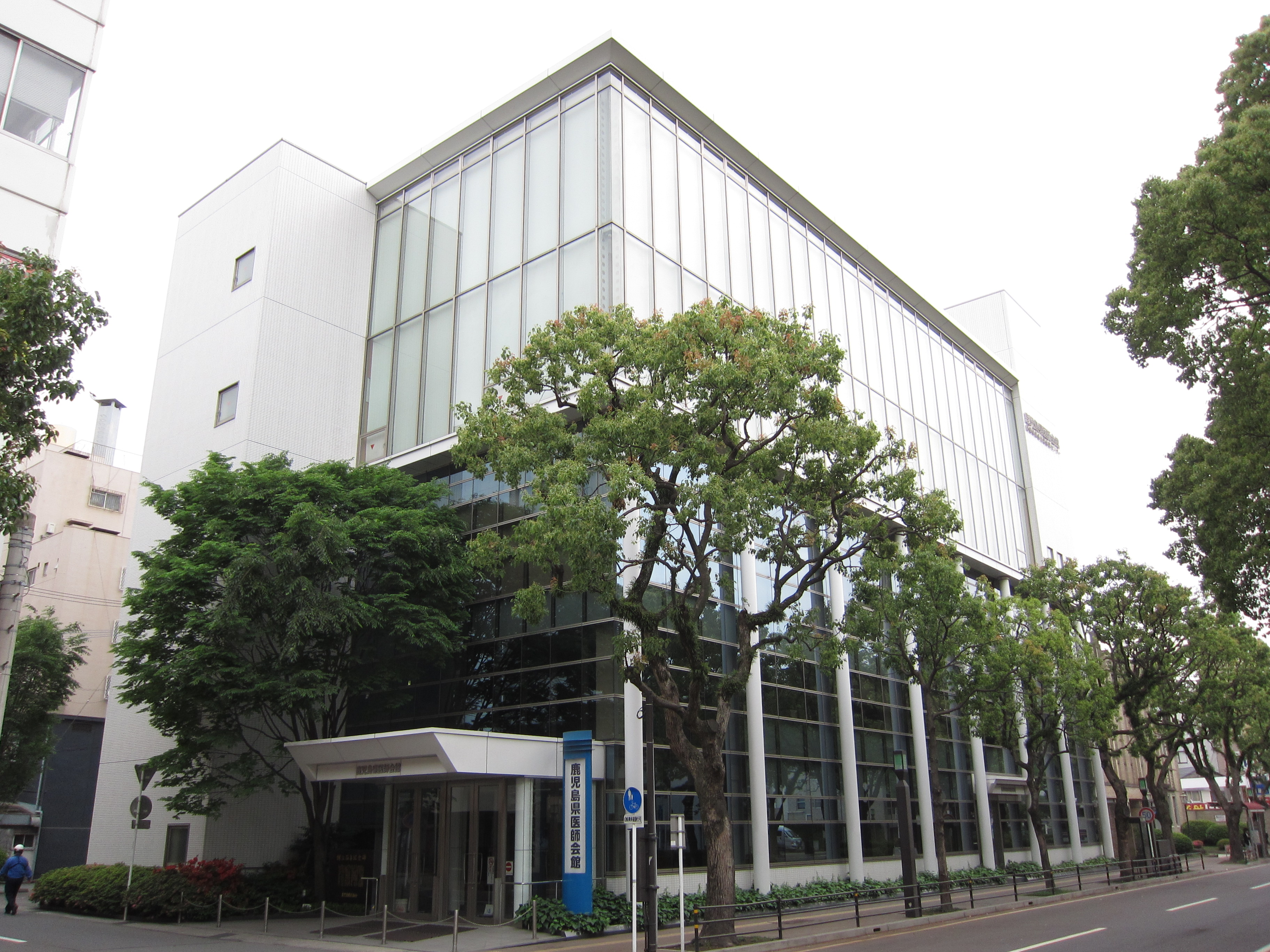 Kagoshima Medical Doctor Credit Union